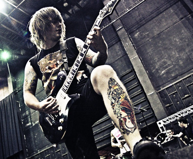 Bring Me the Horizon Warped Tour 2010.